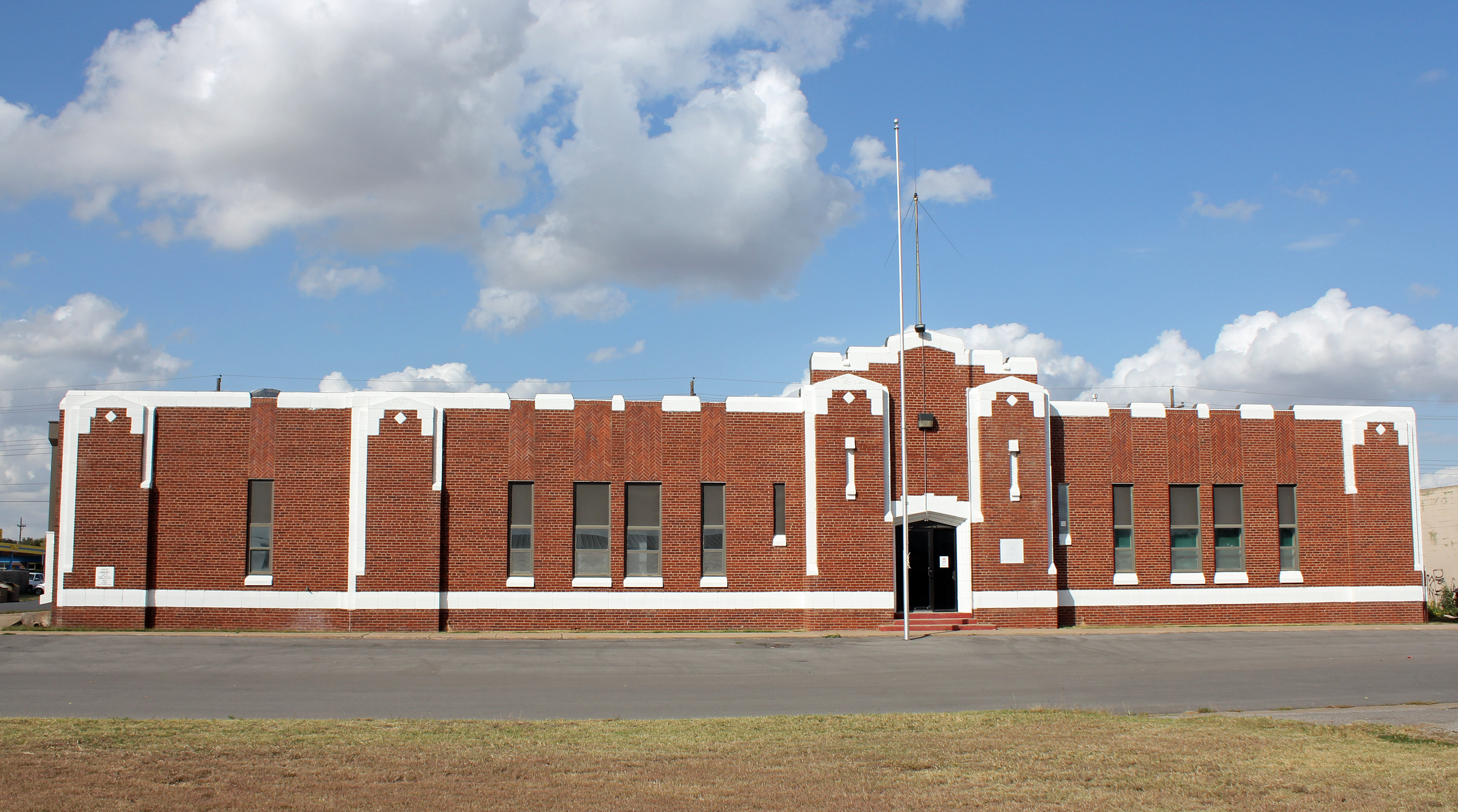 The Weatherford Armory, located at 123 West Rainey Street in Weatherford, Oklahoma. The property is listed on the National Register of Historic Places.